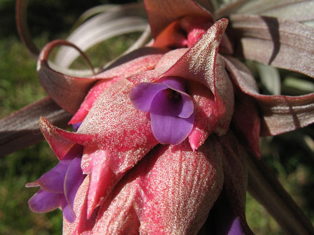 Tillandsia sphaerocephala in cultivation at the Botanical Garden of Heidelberg, Germany.